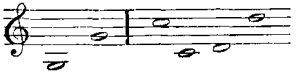 Musical notation indicating the tuning of a Welsh crwth.